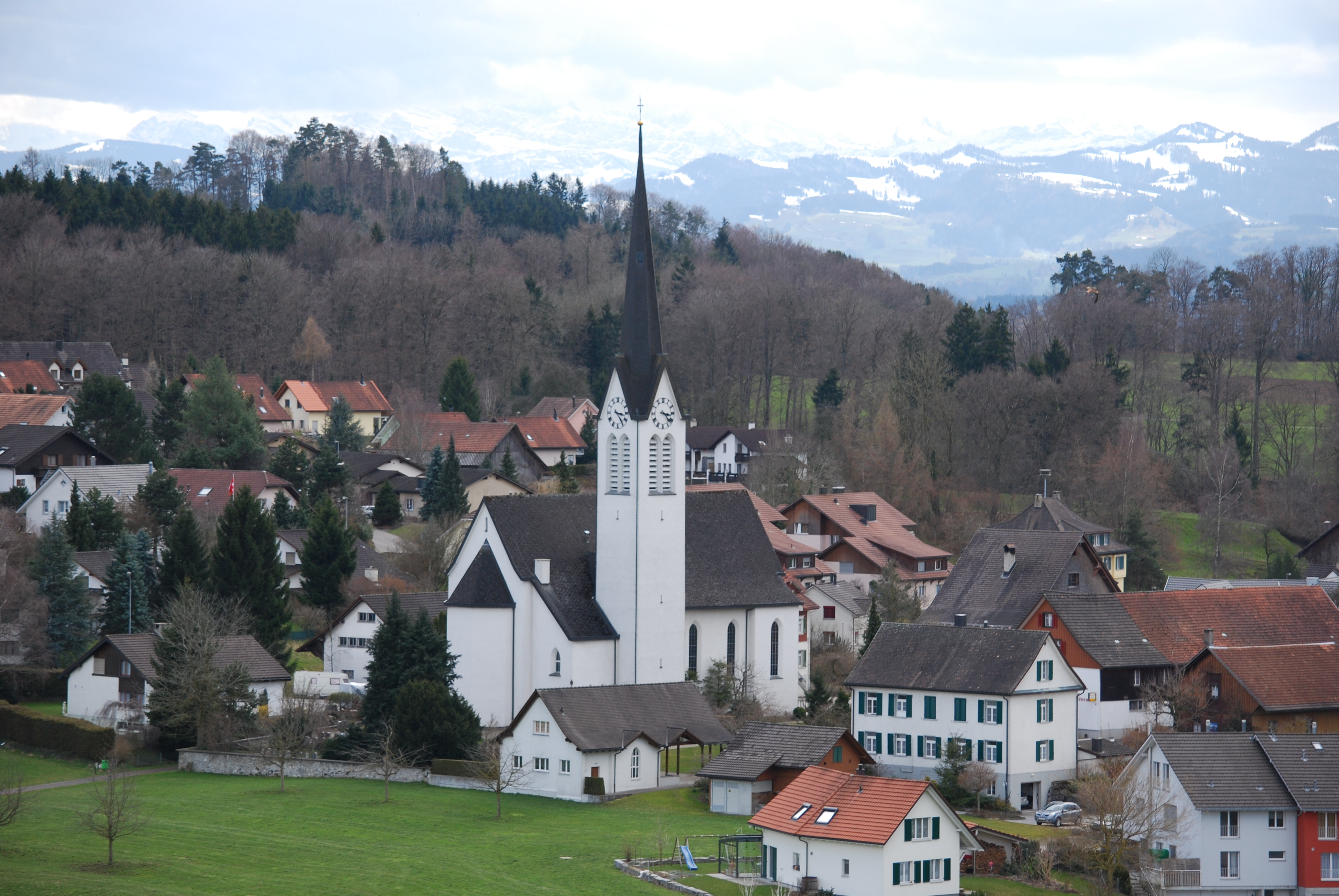 Catholic church of Wuppenau, canton of Thurgovia, SwitzerlandEsperanto: Katolika preĝejo de Wuppenau, Kantono Turgovio, Svislando